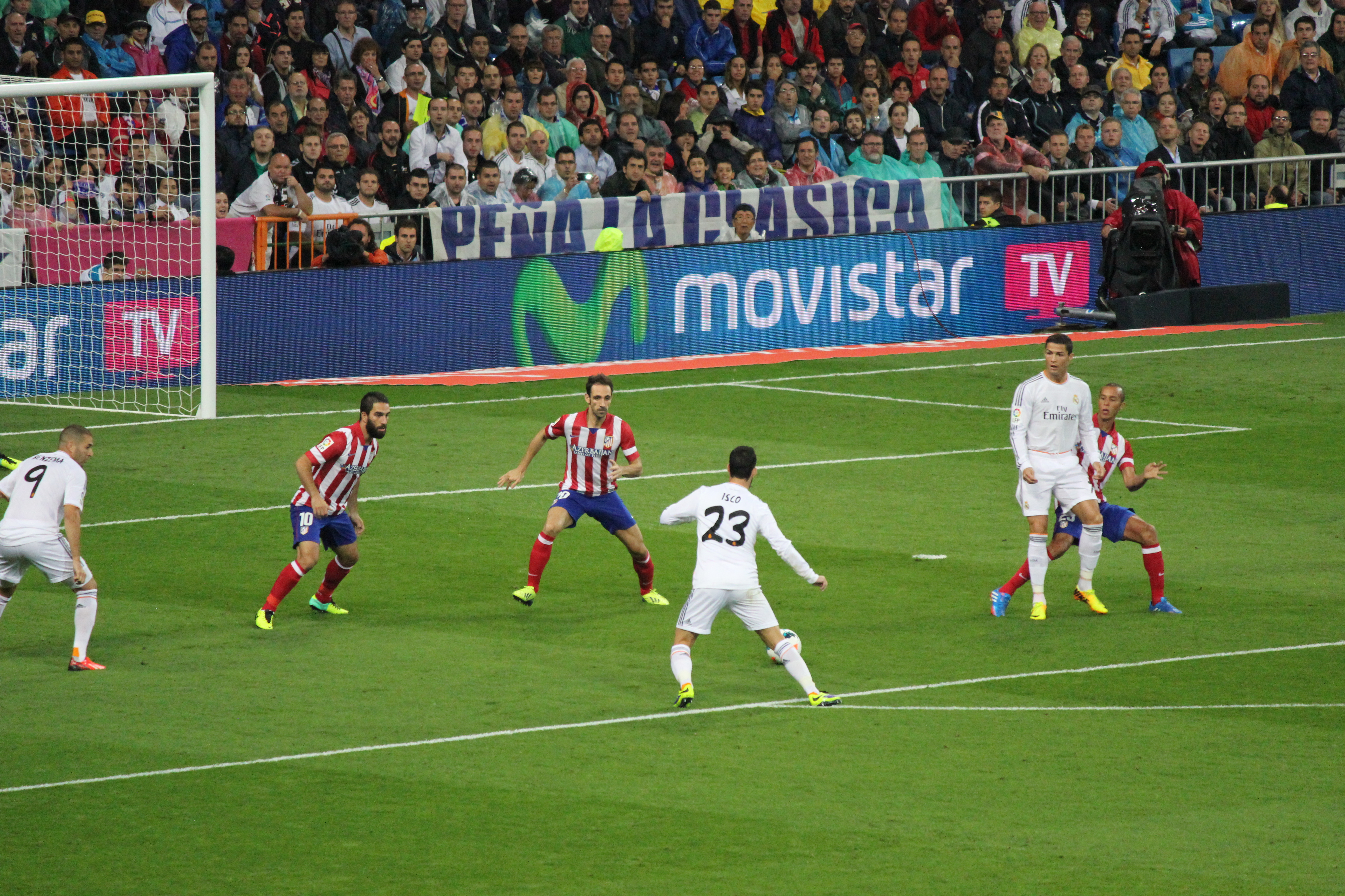 Real Madrid vs. Atlético Madrid 28 September 2013.